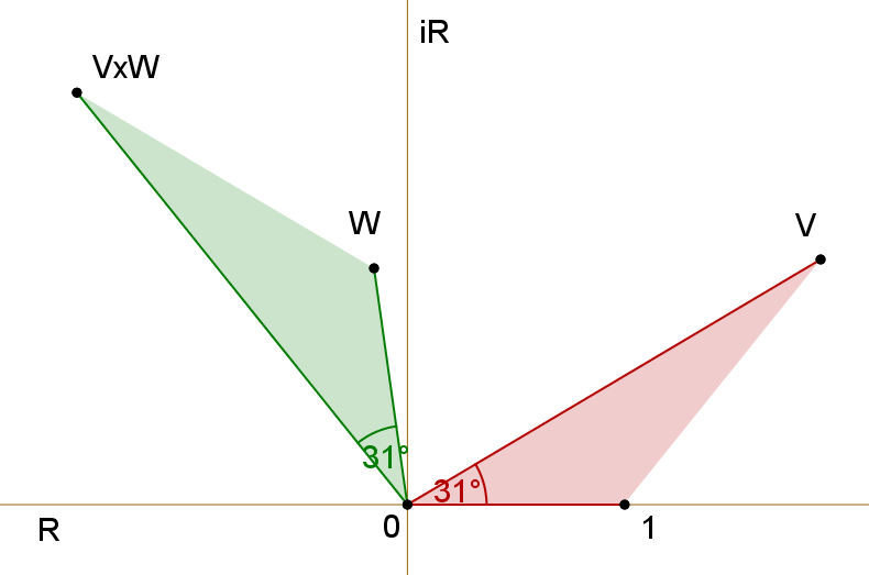 Multiplication of complex numbers (geometric construction in the plane of Argand) The similitude maps 1 to v and w to vw.